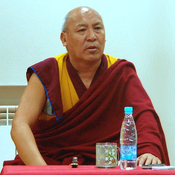 18 Pavlovskaya Str, Moscow, Russia, Geshe Lhakdor speaks on "Buddhism for the XXI Century". Geshe Lhakdor is an English Language Interpreter for the Dalai Lama, and the Director of the Library of Tibetan Works and Archives in Dharamsala, India.